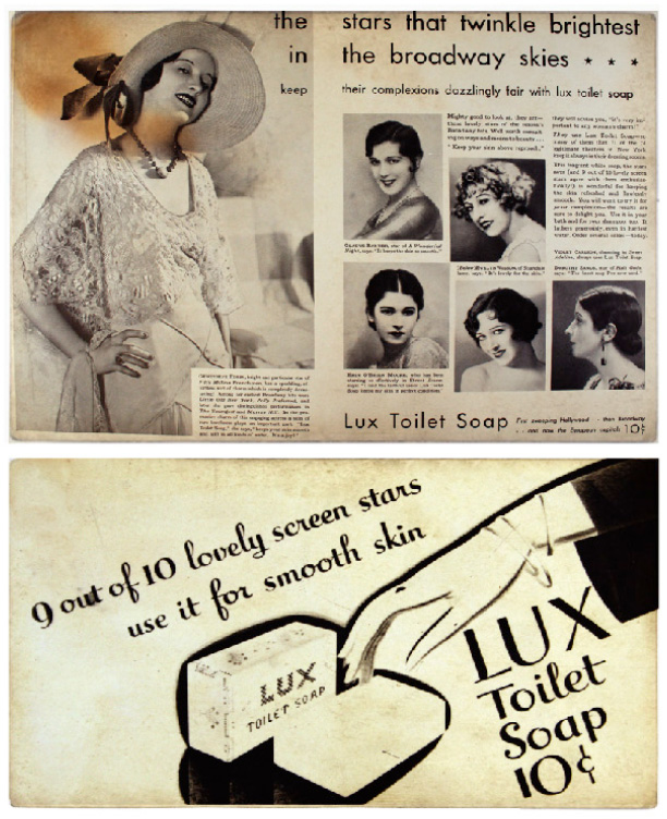 Lux - 9 out of 10 stars